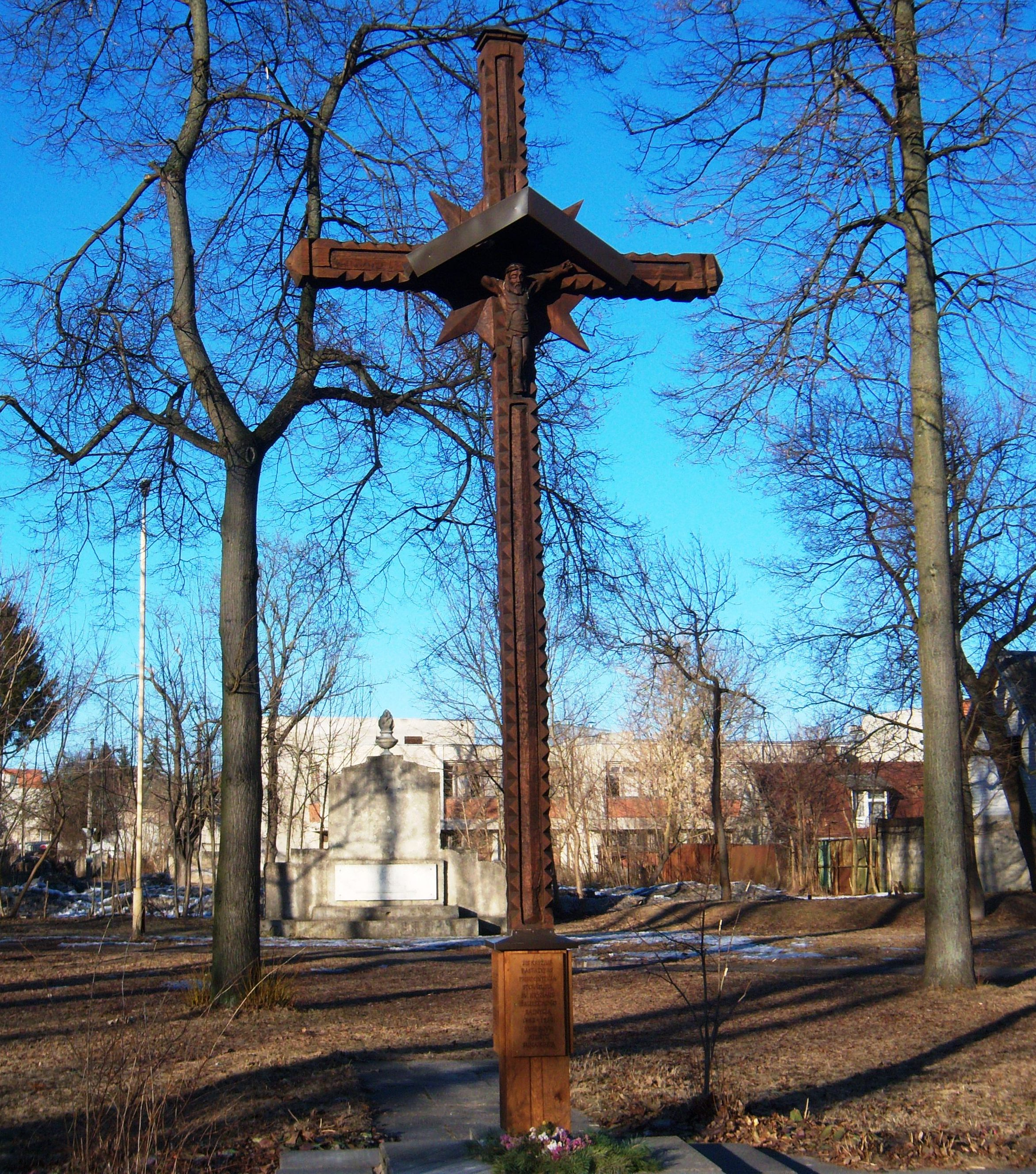 A wooden cross in Vilijos parkas, Kaunas, Lithuania